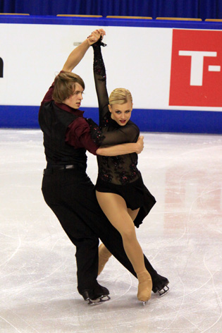 2009 Skate Canada International - Madison Hubbell and Keiffer Hubbell